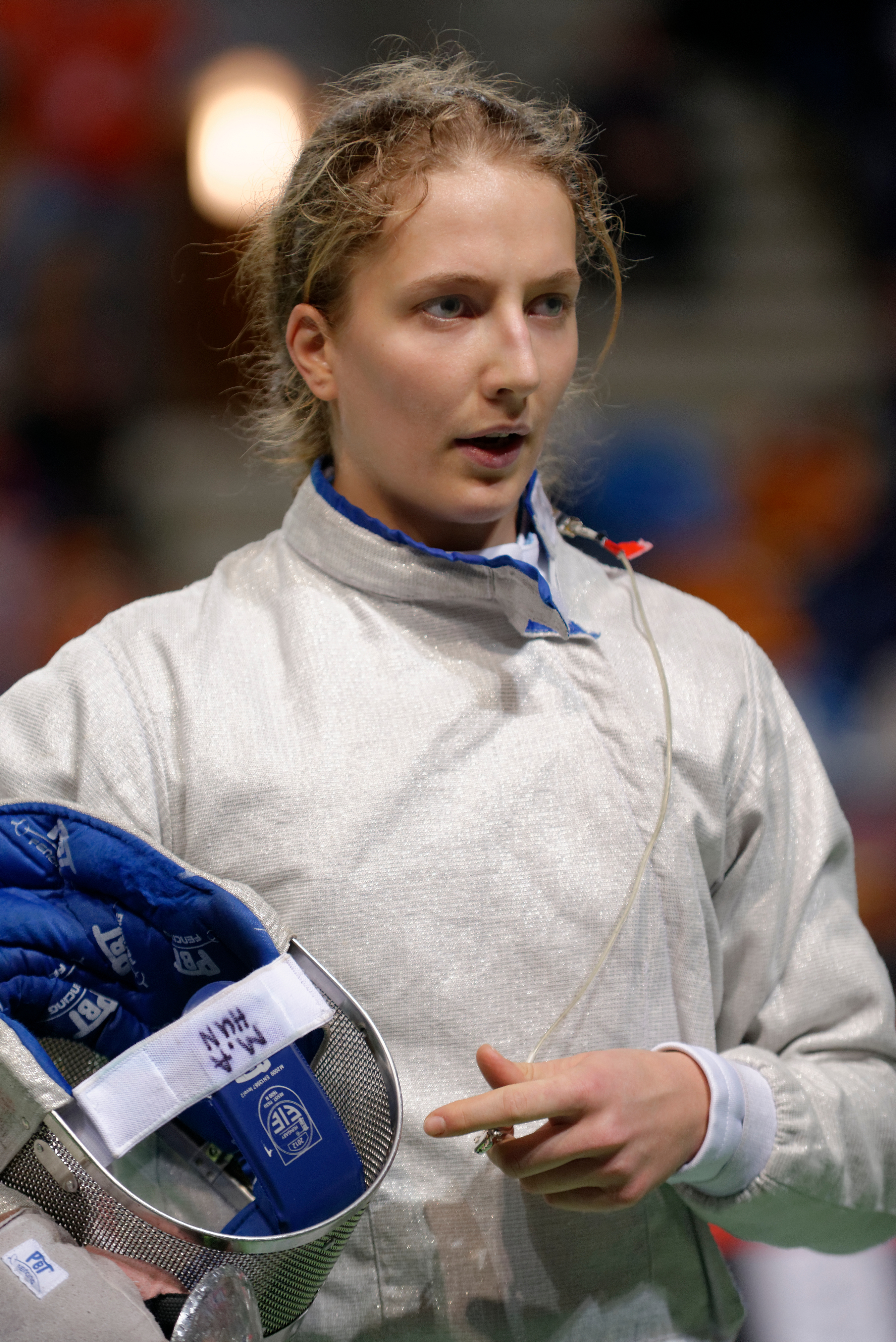 Anna Márton of Hungary at the Trophée BNP Paribas-Grand Prix FIE, first stage of the women's sabre World Cup, in Orléans.